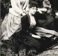 Beatrice Offor